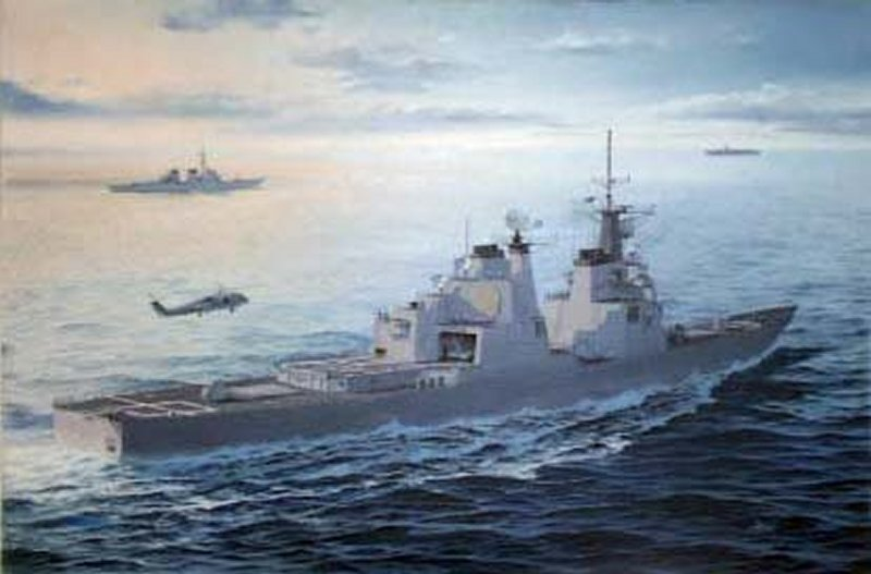 Navy Preliminary design created the Cruiser Baseline (CGBL). The study also included weapons systems modularity and increased service life reserves. The resulting ship had a waterline length of 600 feet, a beam of 69 feet, a displacement of about 13,500 tons plus a 30+ knot speed.